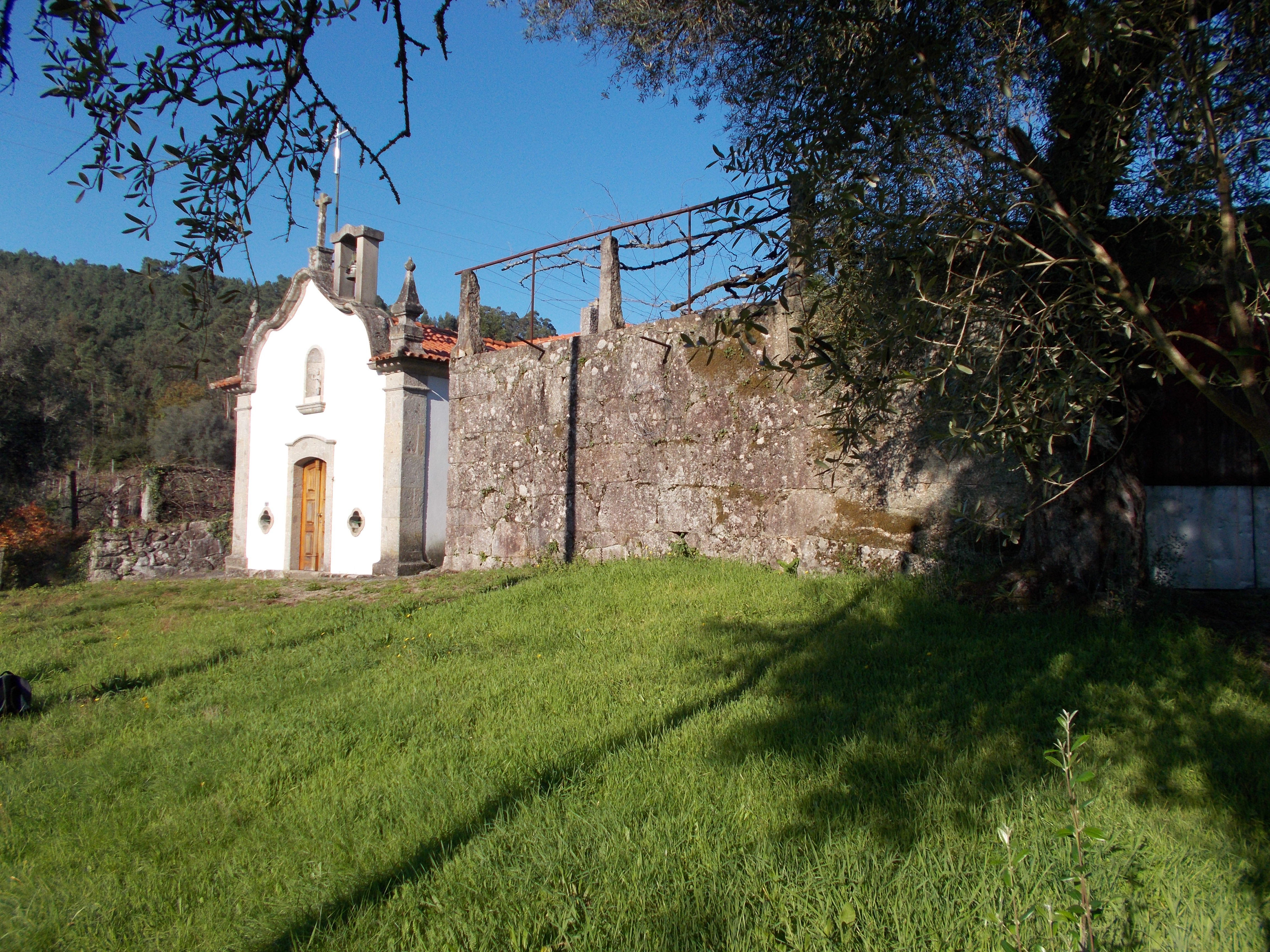 Paço do lameiro e Capela